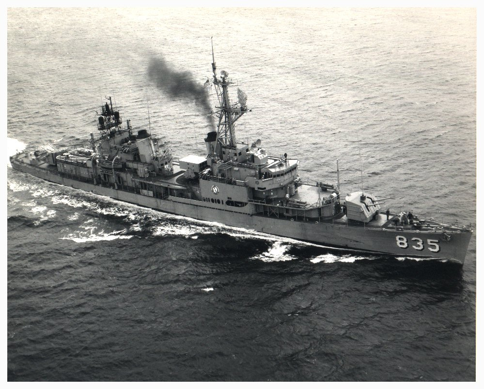 The U.S. Navy destroyer USS Charles P. Cecil (DD-835) underway in Narragansett Bay, Rhode Island (USA), on 10 October 1971.